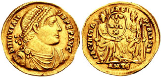 JOVIAN. 363-364 AD. AV Solidus (4.41 gm). Antioch mint. DL IOVIAN-US P F P AUG, Pearl-diademed, draped and cuirassed bust right SECURITA-S REI PUBLICAE, Roma and Constantinopolis enthroned, supporting between them shield inscribed VOT/V/MVL/X in four lines; ANTE. RIC VIII 223; Depeyrot 18/2. VF, traces of prior mounting on edge. From the Garth R. Drewry Collection.